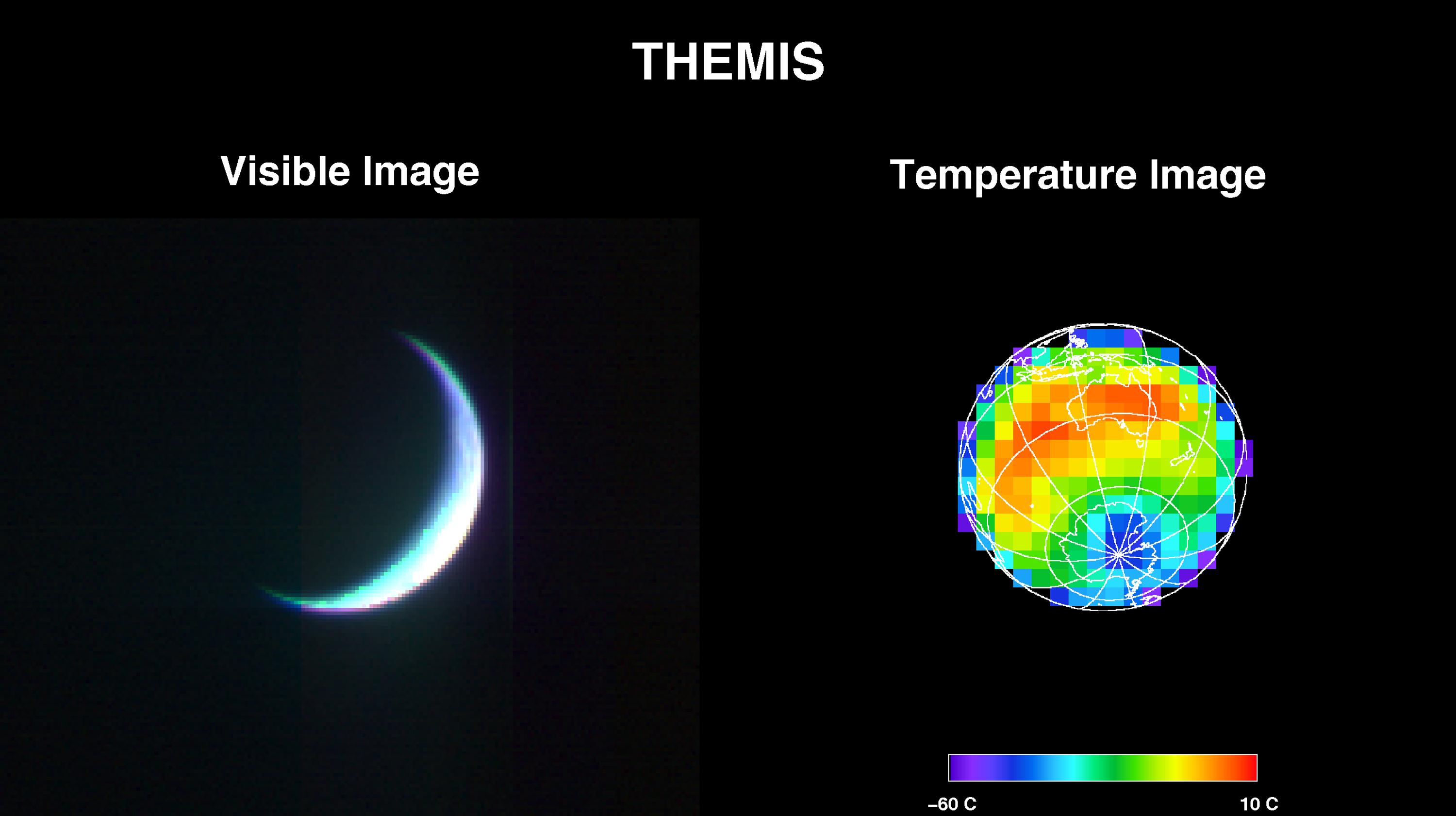 2001 Mars Odyssey's Thermal Emission Imaging System (THEMIS) acquired these images of the Earth using its visible and infrared cameras as it left the Earth. The visible image shows the thin crescent viewed from Odyssey's perspective. The infrared image was acquired at exactly the same time, but shows the entire Earth using the infrared's "night-vision" capability. Invisible light the instrument sees only reflected sunlight and therefore sees nothing on the night side of the planet. In infrared light the camera observes the light emitted by all regions of the Earth. The coldest ground temperatures seen correspond to the nighttime regions of Antarctica; the warmest temperatures occur in Australia. The low temperature in Antarctica is minus 50 degrees Celsius (minus 58 degrees Fahrenheit); the high temperature at night in Australia 9 degrees Celsius(48.2 degrees Fahrenheit). These temperatures agree remarkably well with observed temperatures of minus 63 degrees Celsius at Vostok Station in Antarctica, and 10 degrees Celsius in Australia. The images were taken at a distance of 3,563,735 kilometers (more than 2 million miles) on April 19, 2001 as the Odyssey spacecraft left Earth.